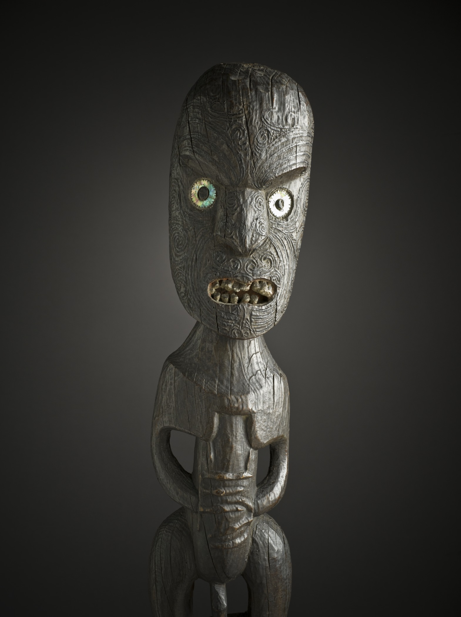 New Zealand (Aotearoa), Maori, circa 1800 Sculpture Wood, shell, human teeth, and traces of pigment 38 1/2 x 5 1/2 x 3 in. (97.79 x 13.97 x 7.62 cm) Purchased with funds provided by the Eli and Edythe Broad Foundation with additional funding by Jane and Terry Semel, the David Bohnett Foundation, Camilla Chandler Frost, Gayle and Edward P. Roski and The Ahmanson Foundation (M.2008.66.18) Art of the Pacific Currently on public view: Ahmanson Building, floor 1